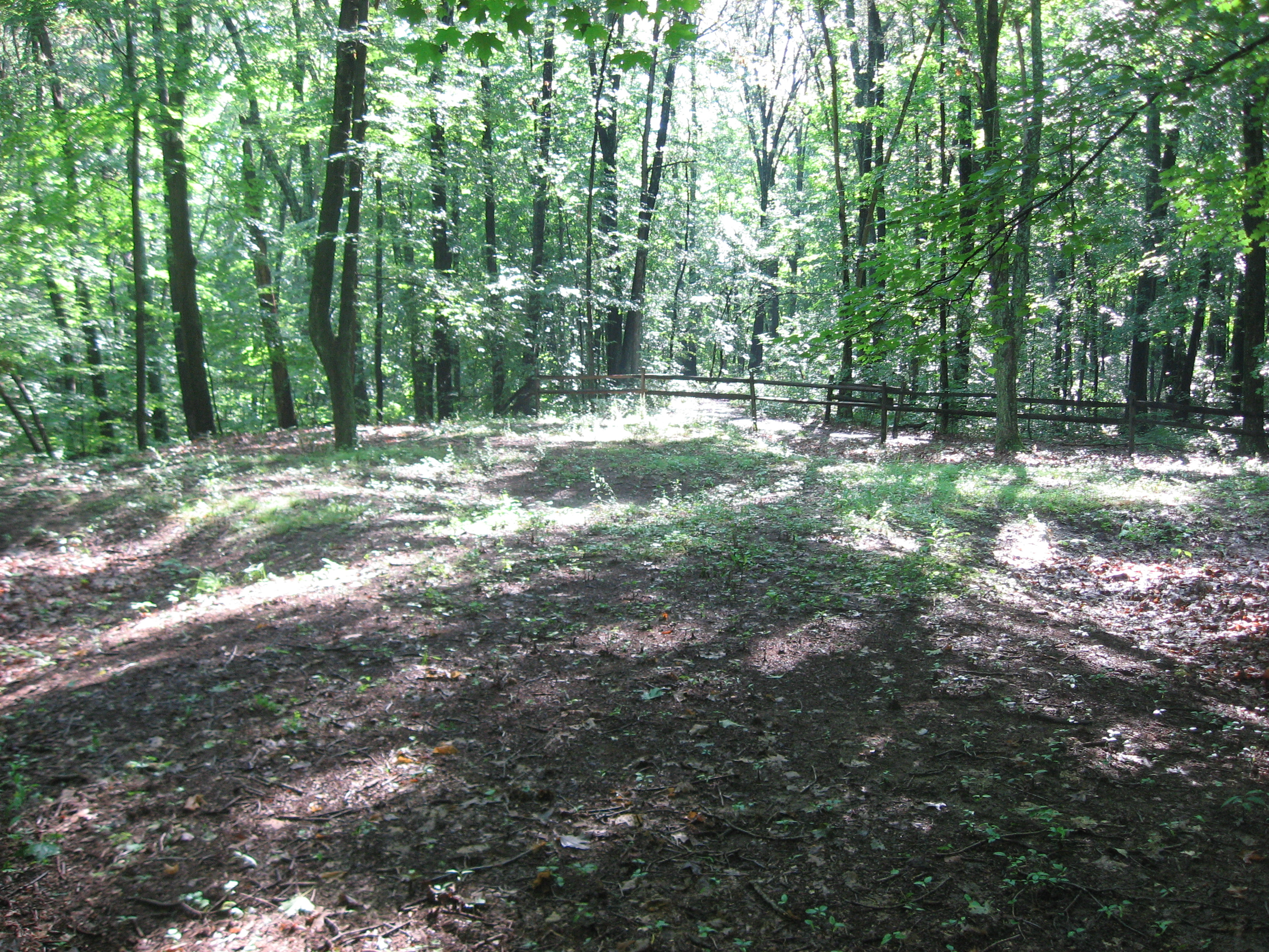 The Tarlton Cross Mound, a Native American mound possibly built by the Fort Ancient culture, seen from the west. Located in Cross Mound Park just north of Tarlton in Clear Creek Township, Fairfield County, Ohio, United States, the mound is listed on the National Register of Historic Places.